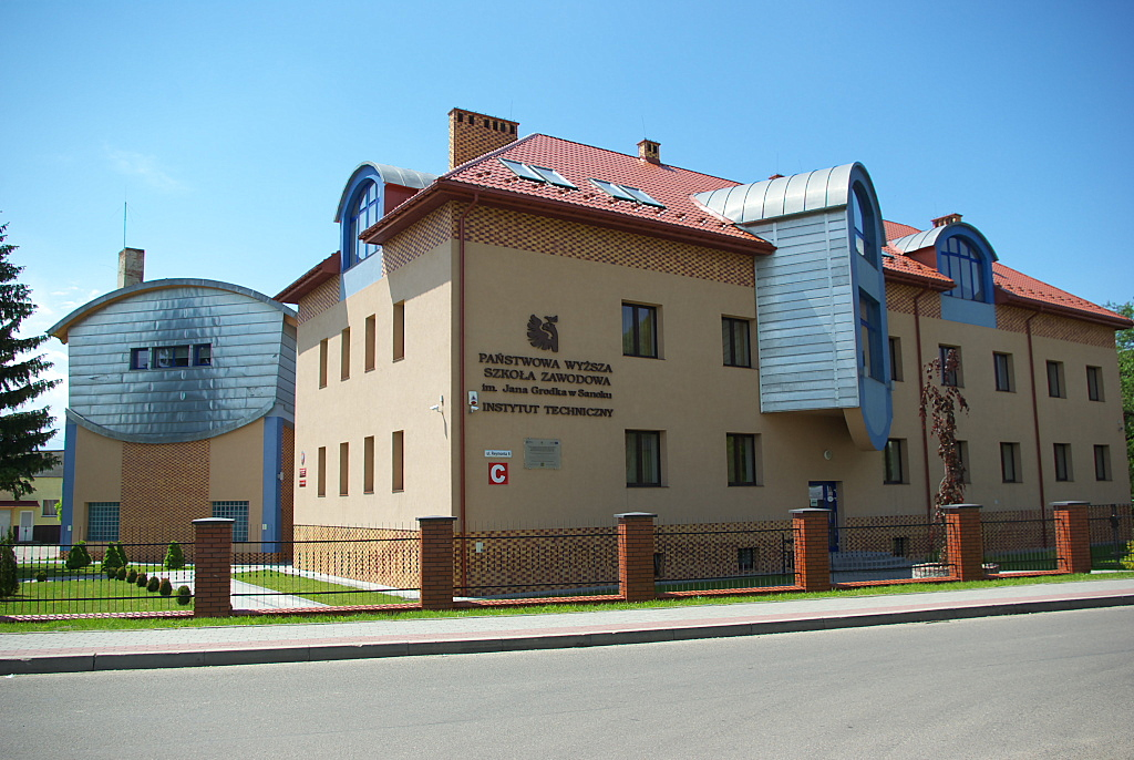 Technical Institute of Jan Grodek State Vocational Academy in Sanok on the 6 Reymonta Street